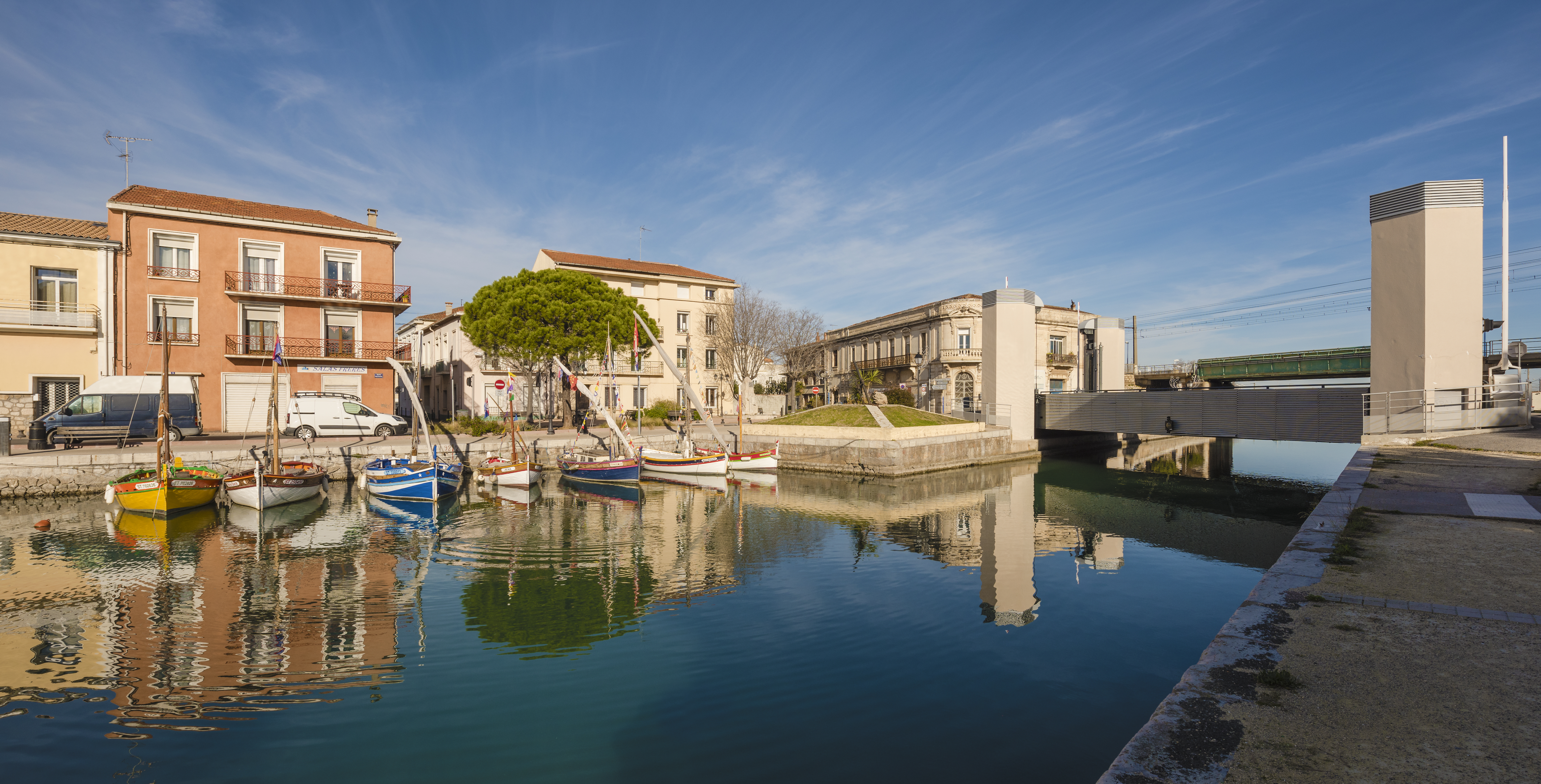 Boats and the bridge of the D129 (Departmental Road) over the Canal du Rhône à Sète. Frontignan, Hérault, France.